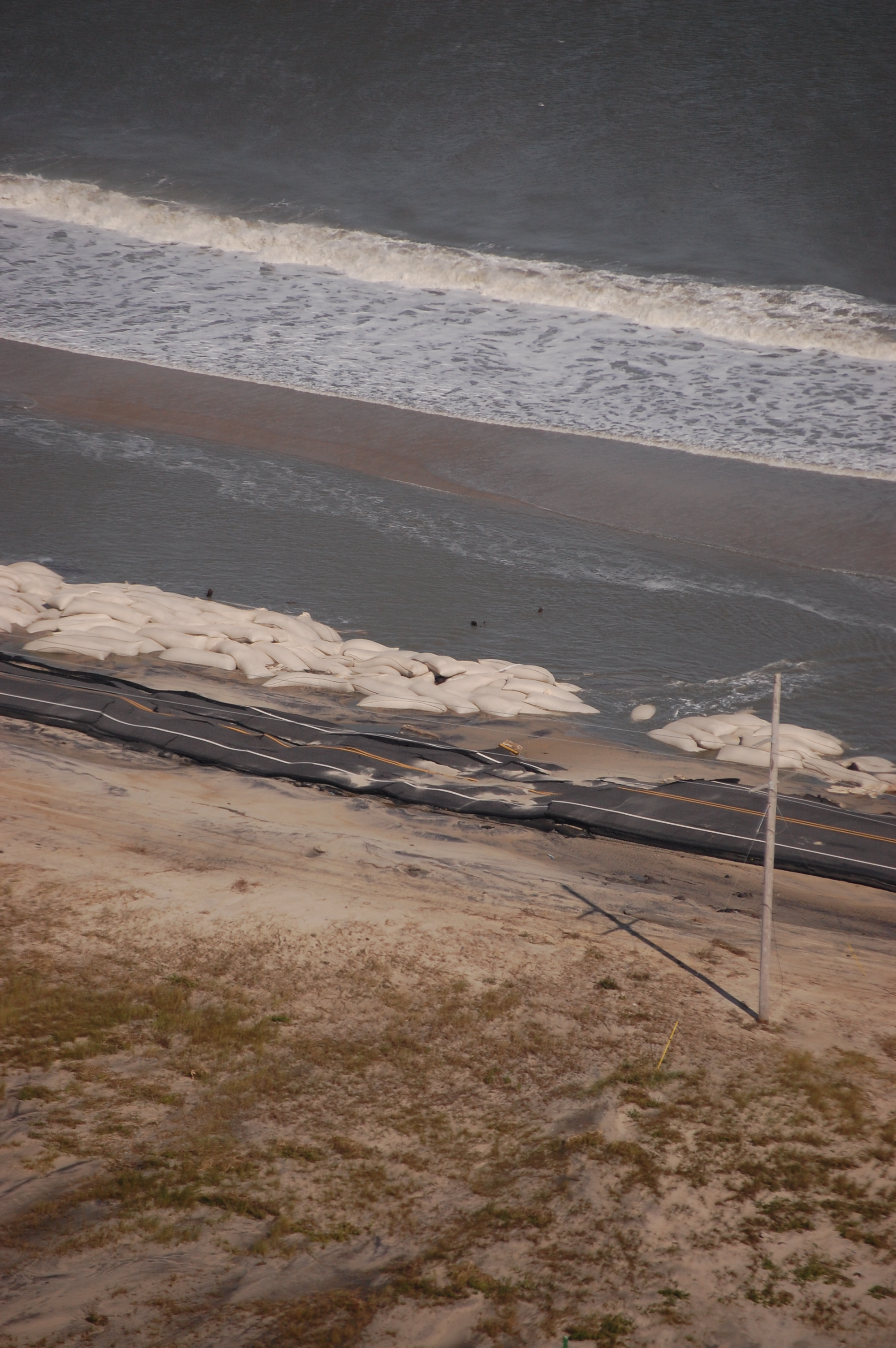 Hurricane Sandy - NC12